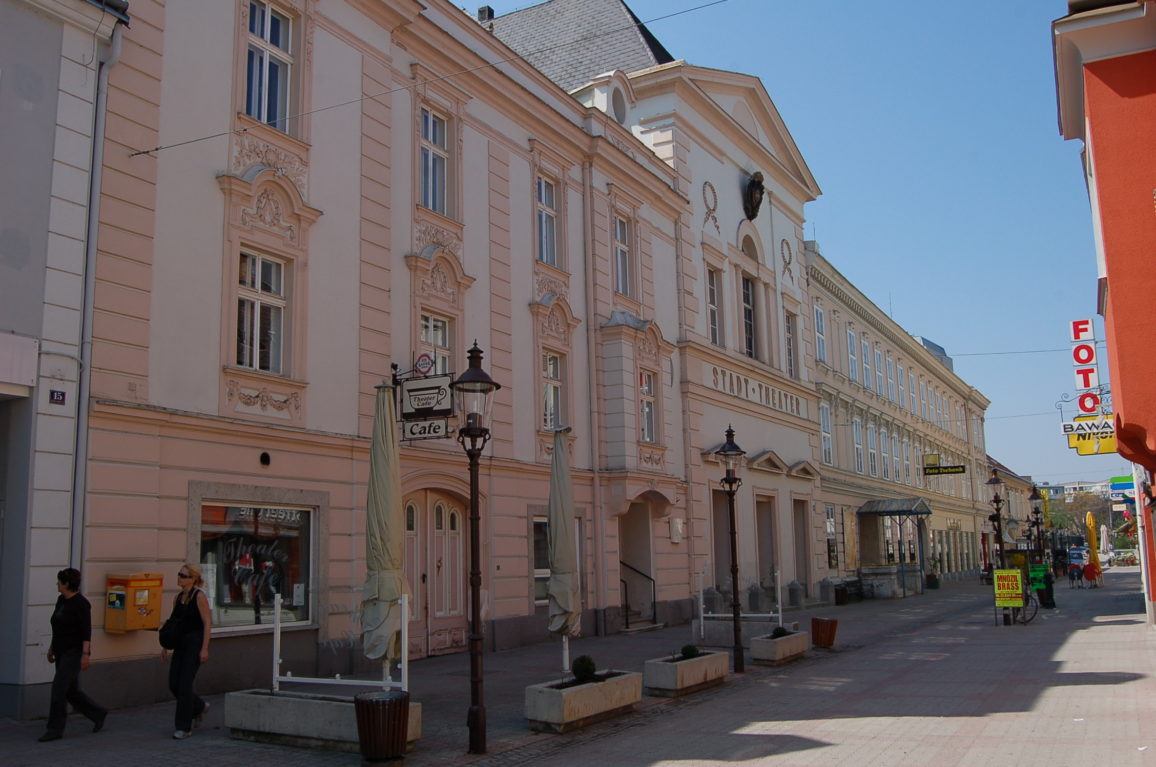 Town Theatre at Herzog-Leopold-Straße, Wiener Neustadt, Lower Austria. The theatre was set up in 1793 and 1794 in the former church building of the closed Carmelite Sisters' monastery.